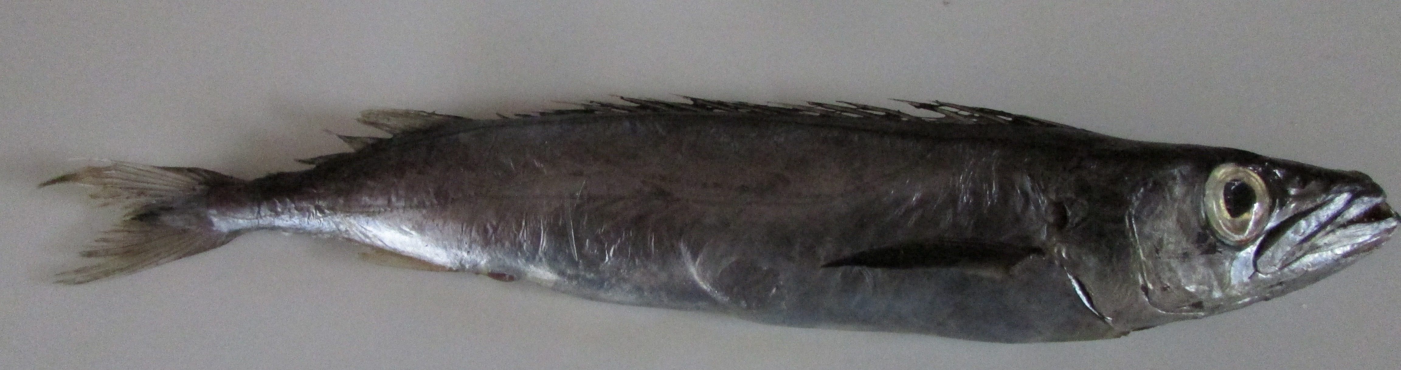 Rexea bengalensis collected off India, Tuticorin